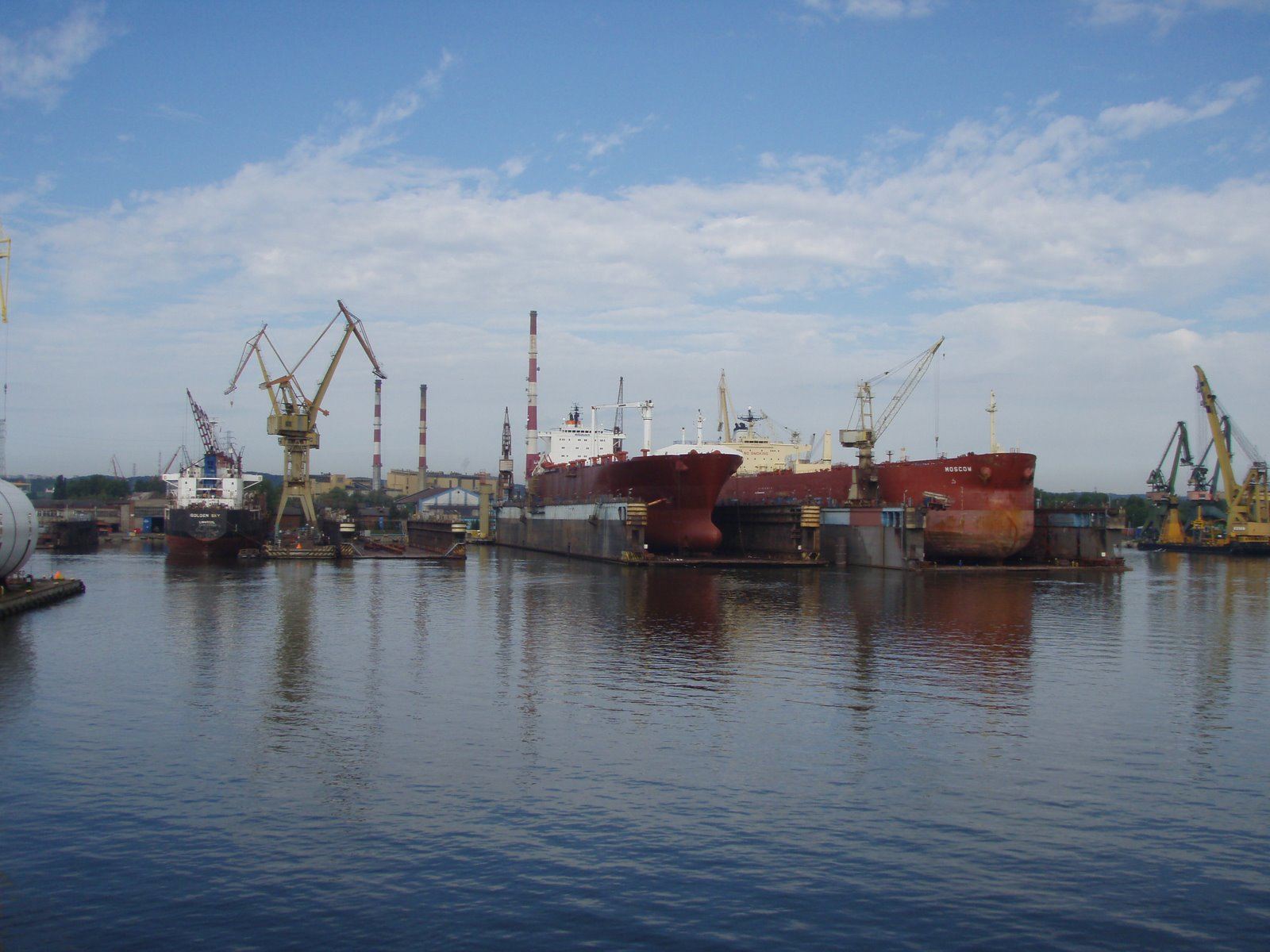 Gdańsk Młyniska. The Remontowa Shipyard.